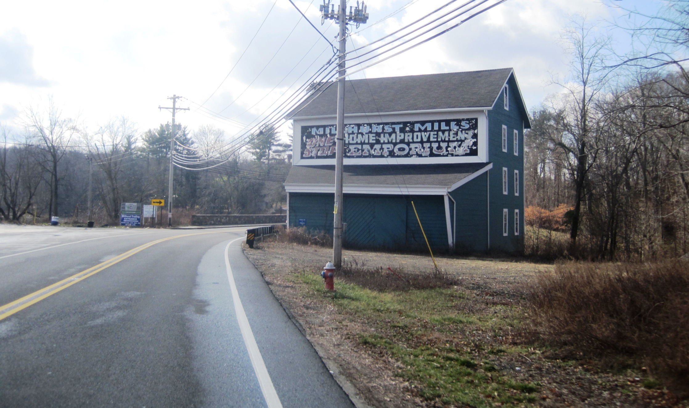 Photo showing the Millhurst Mill building located in Millhurst, New Jersey, an unincorporated community within Manalapan Township. Photo taken along westbound Sweetmans Lane (southbound County Route 527) prior to its crossing of the Manalapan Brook.